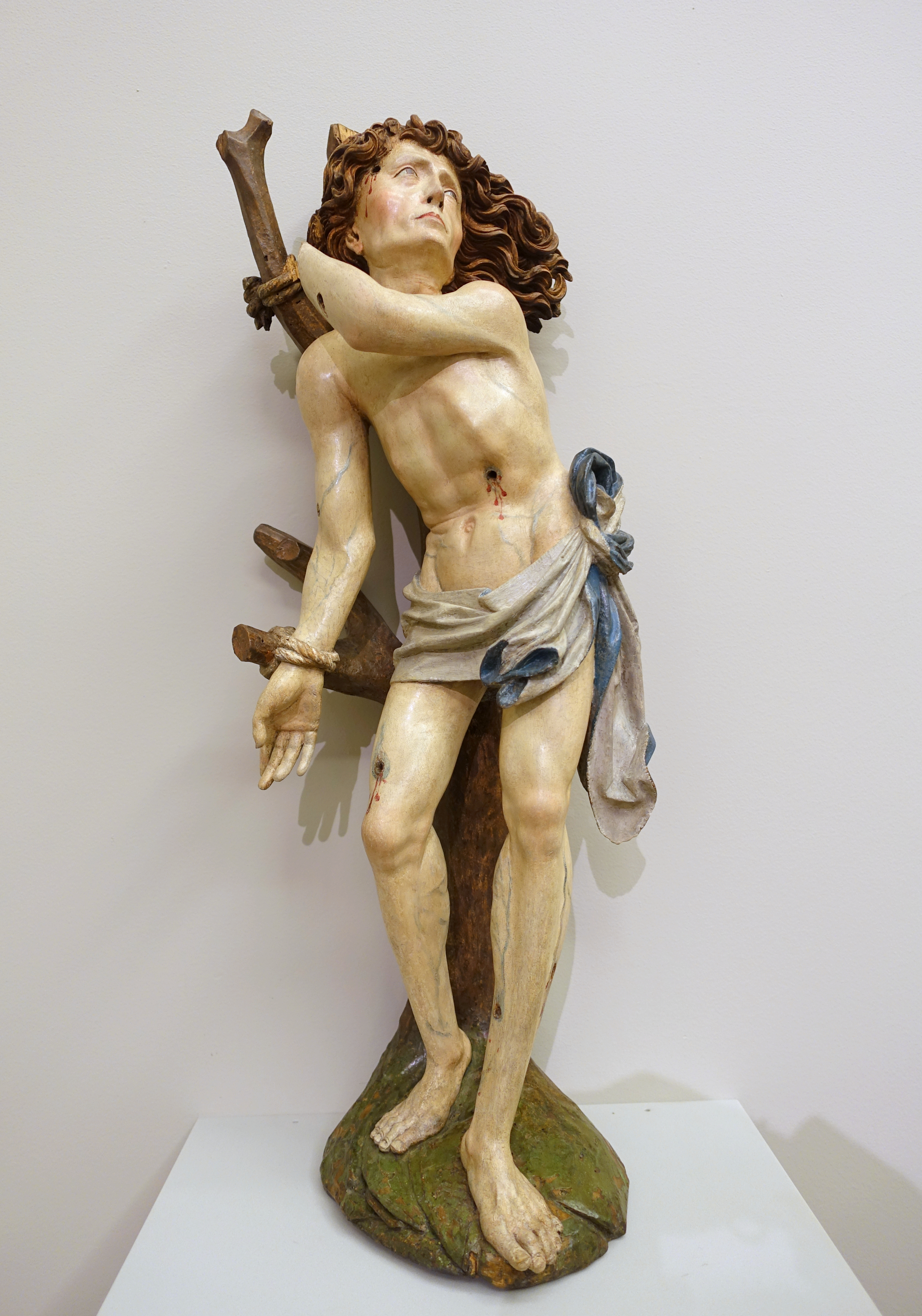 Exhibit in the Bode-Museum, Berlin, Germany. This work is in the public domain because the artist died more than 100 years ago.